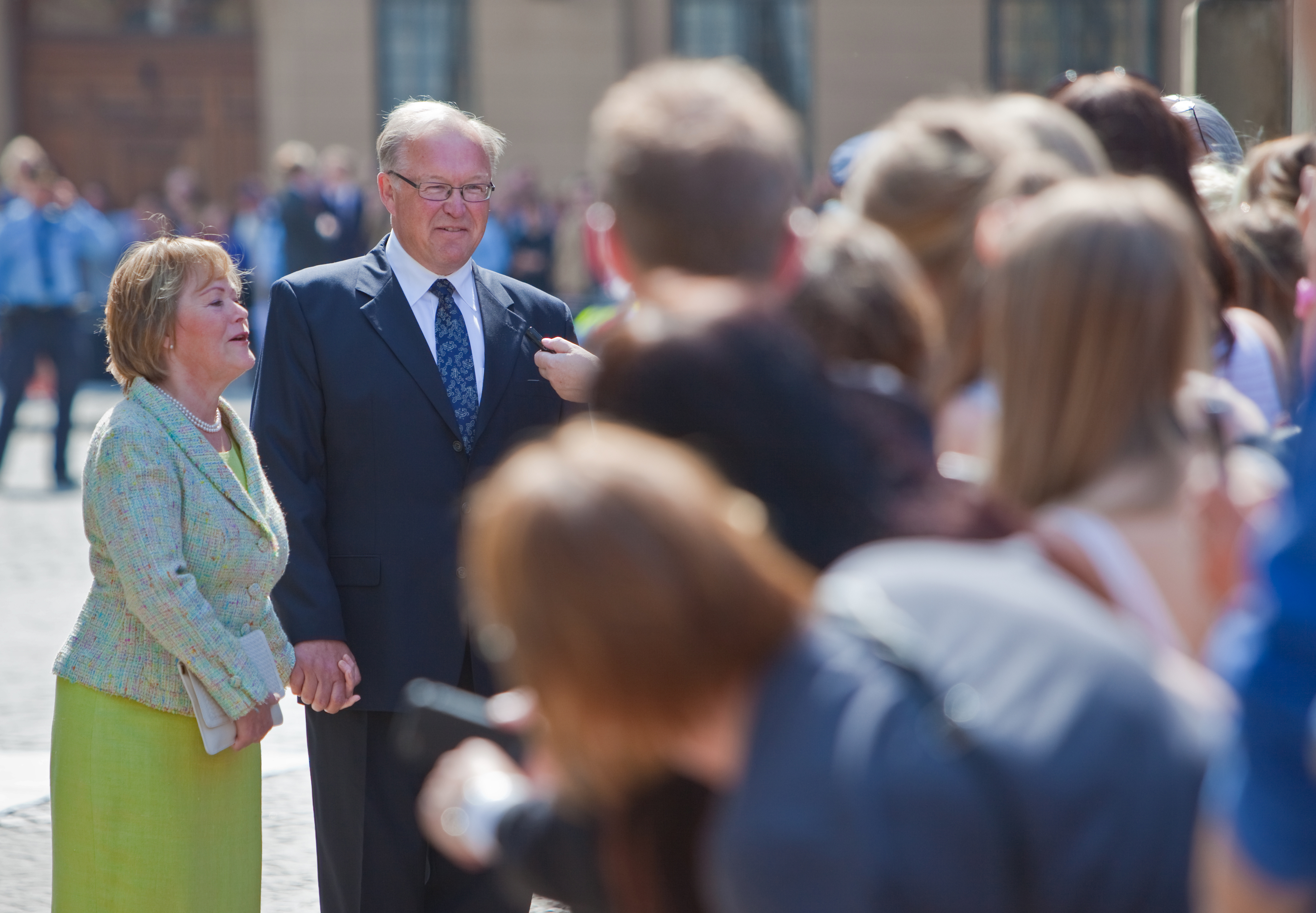 Göran Persson, former Prime Minister of Sweden, and wife, at Princess Estelle's baptism in Stockholm Sweden May 2012